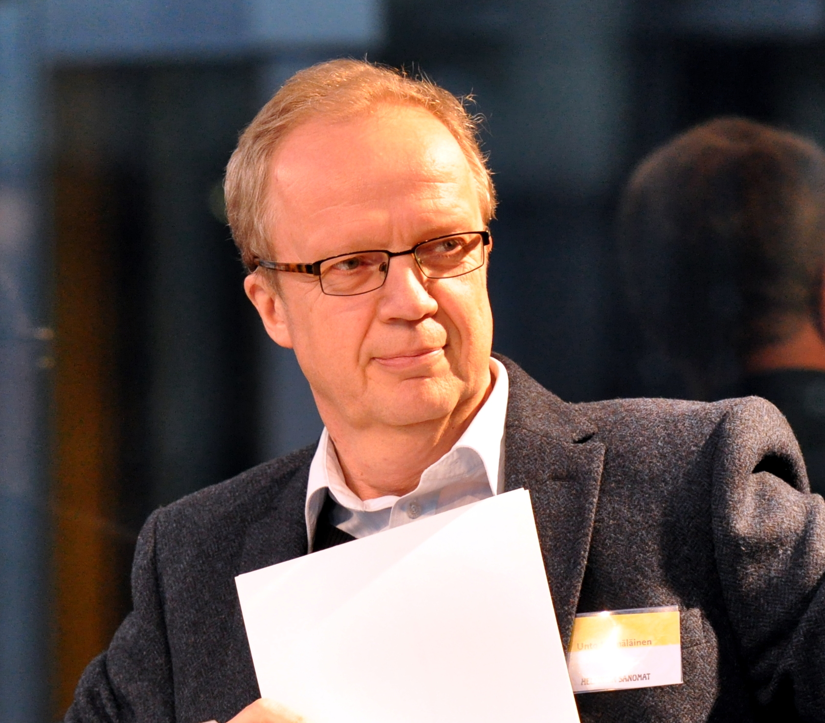 Unto Hämäläinen is a Finnish journalist.